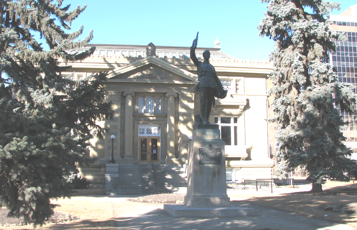 The first Calgary Public Library building, now called the Memorial Park branch. Viewed from the east looking west.